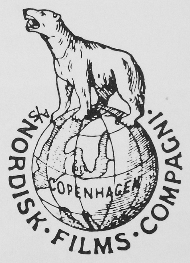 Logo of Nordisk Film A/S, Danish film company, est. 1906. Registered as trademark in 1909, later expired according to: Database ("01.05.08: Terrestrial globes with animals., 03.01.14: Bears, pandas.")